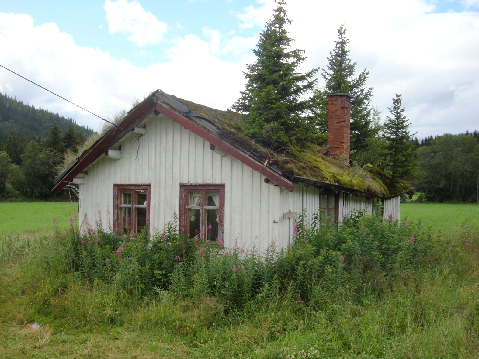 Sod roof in immediate need of repair. Trees that are allowed to grow on a sod roof will eventually destroy the house. 19th century house in Hemsedal, Norway.